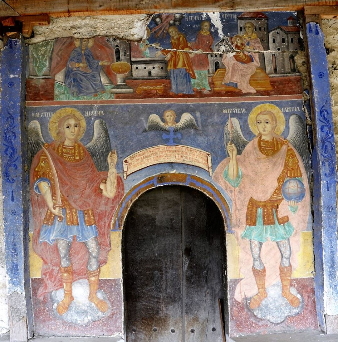 Nativity of Mary Church in Dolno Kleshtino Kato Kleines Fresco